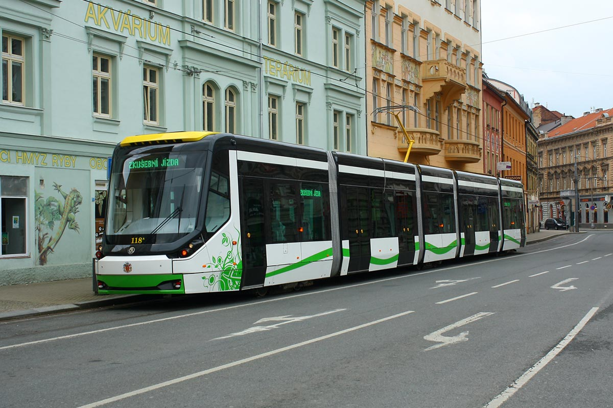 Škoda 26T tram for Miskolc (Hungary), Plzeň, Czech Republic